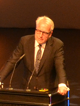 Martin Roth, director of the Victoria and Albert Museum in London, here in 2014 at the openning of the KunstFestSpiele Herrenhausen in Hanover ...